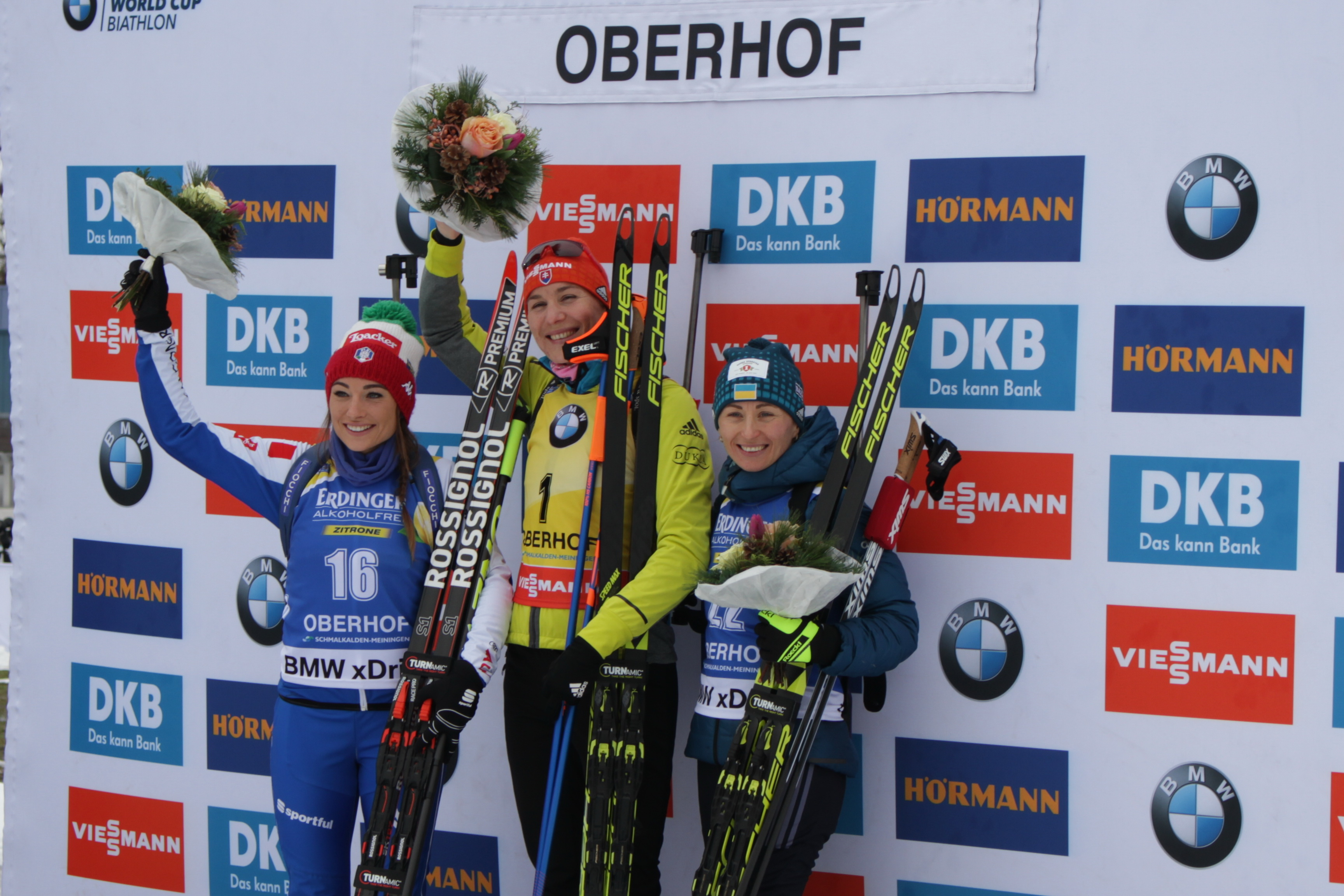 2018 Oberhof Biathlon World Cup - Pursuit Women